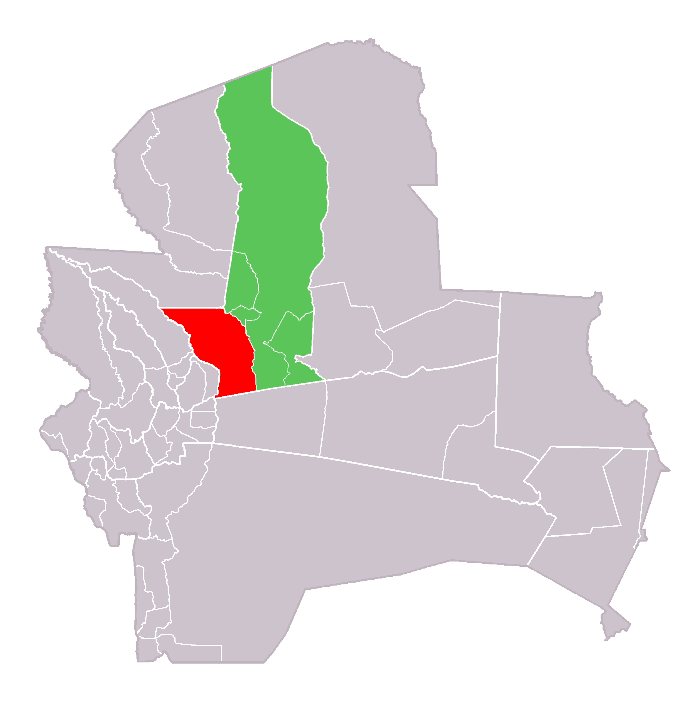 Location map showing the place of San Julián Municipality (red) within Ñuflo de Chávez Province and Santa Cruz Department of Bolivia.